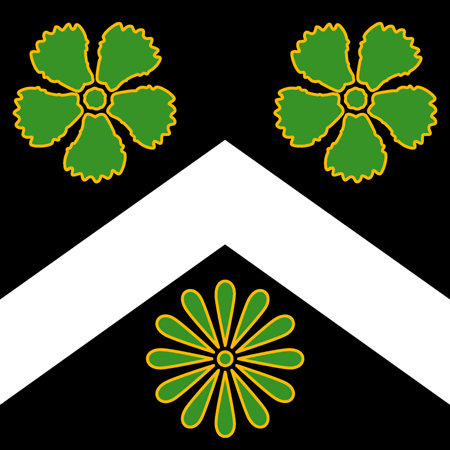 McGeachie Armigers House Banner.